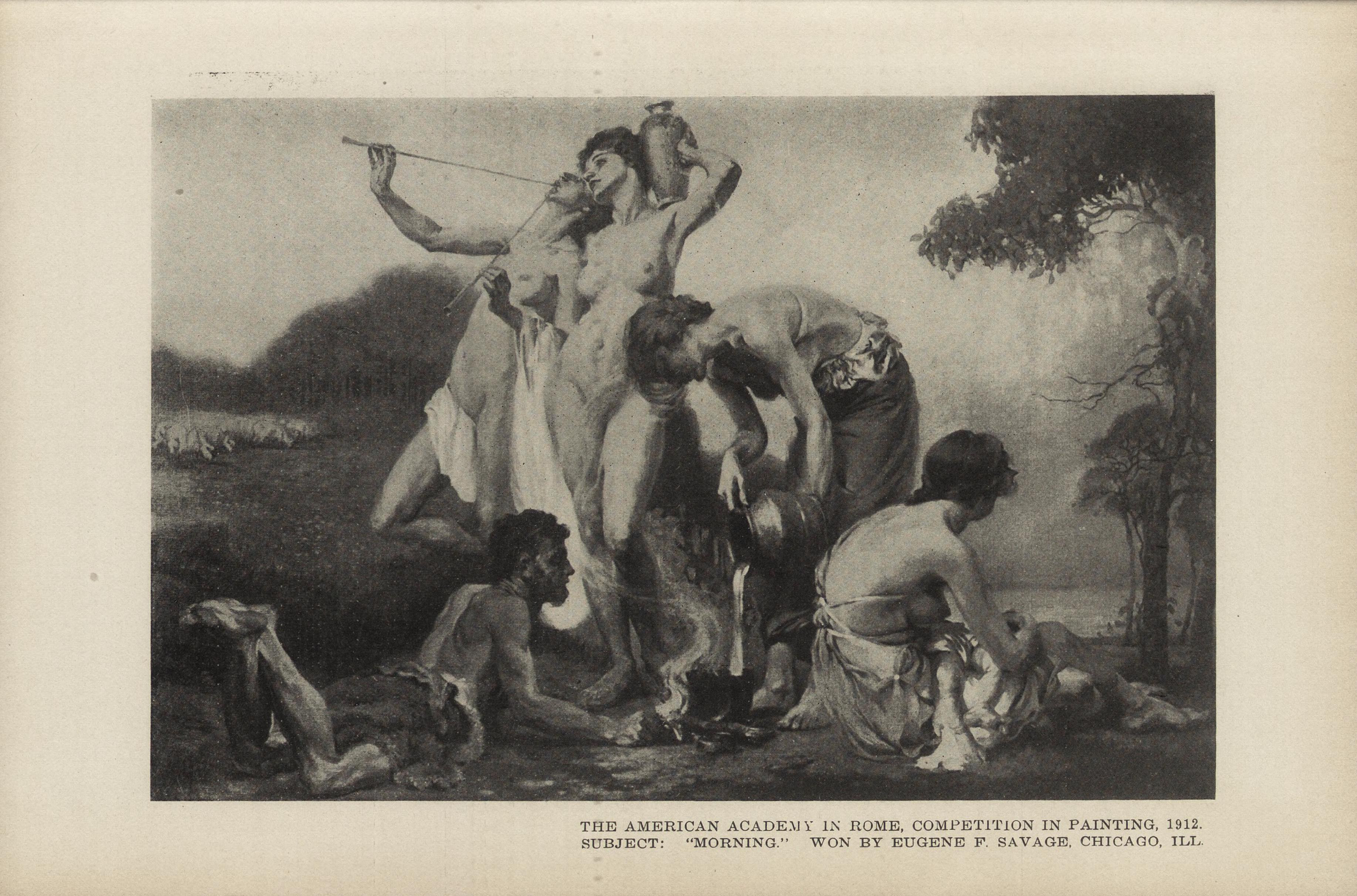 The American Academy in Rome, competition in painting, 1912. Subject: "Morning." Won by Eugene F. Savage, Chicago, Ill